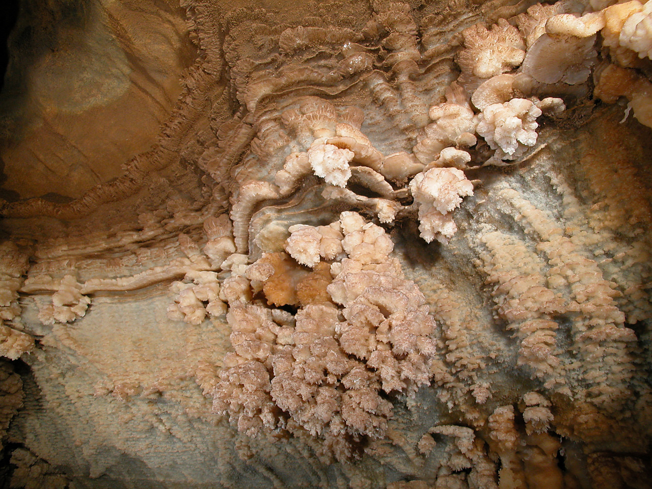 Shelfstone tiers denote former levels of a now mostly dry pool. From Black Chasm Cavern, Volcano, California.